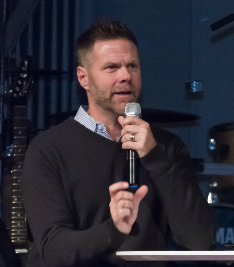 Mark Stuart speaking at Woodlands Community Church on November 13, 2016.